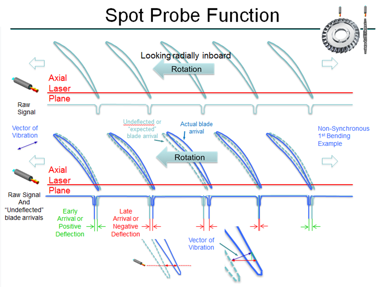 This diagram provides a simplified diagram of how a NSMS system measures rotating blade deflection using blade arrival times.